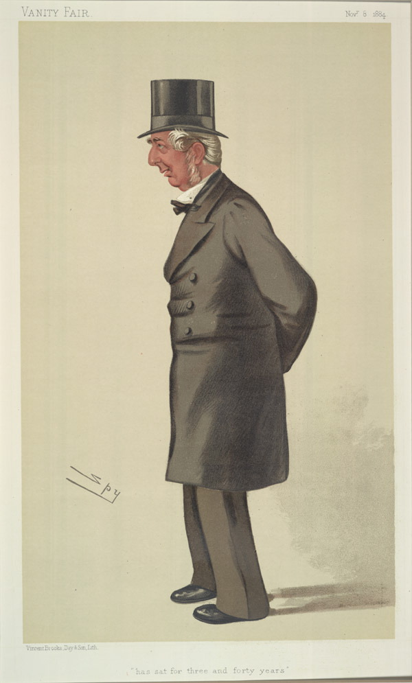 Statesmen No.454: Caricature of Mr F Winn Knight CB MP. Caption reads: "has sat for three and forty years"